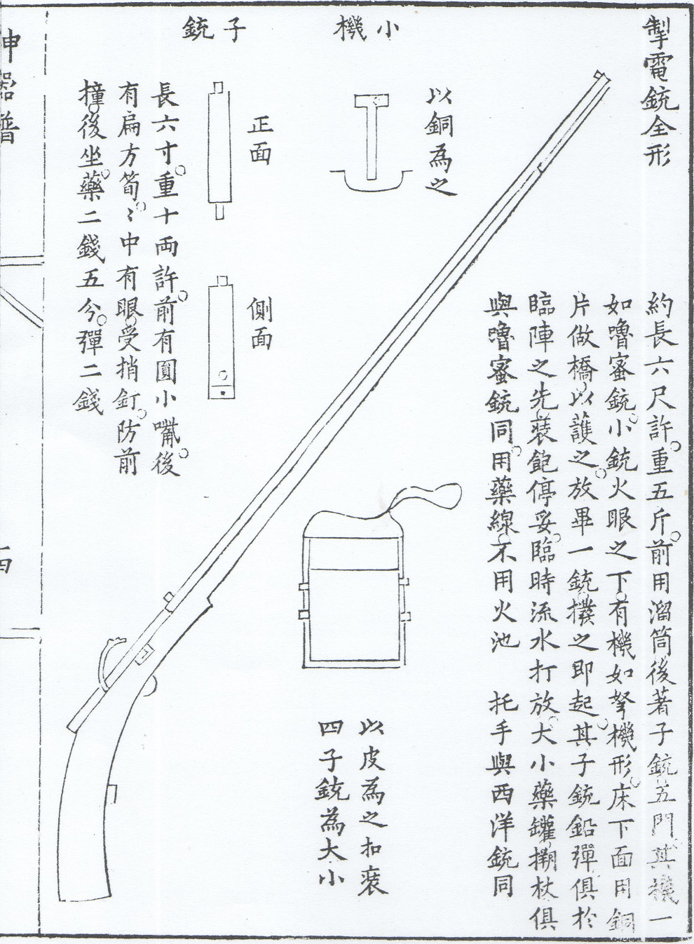 Ming dynasty breech-loading musket chambered for cartridge,"掣電銃" mean "fast-lightning gun".